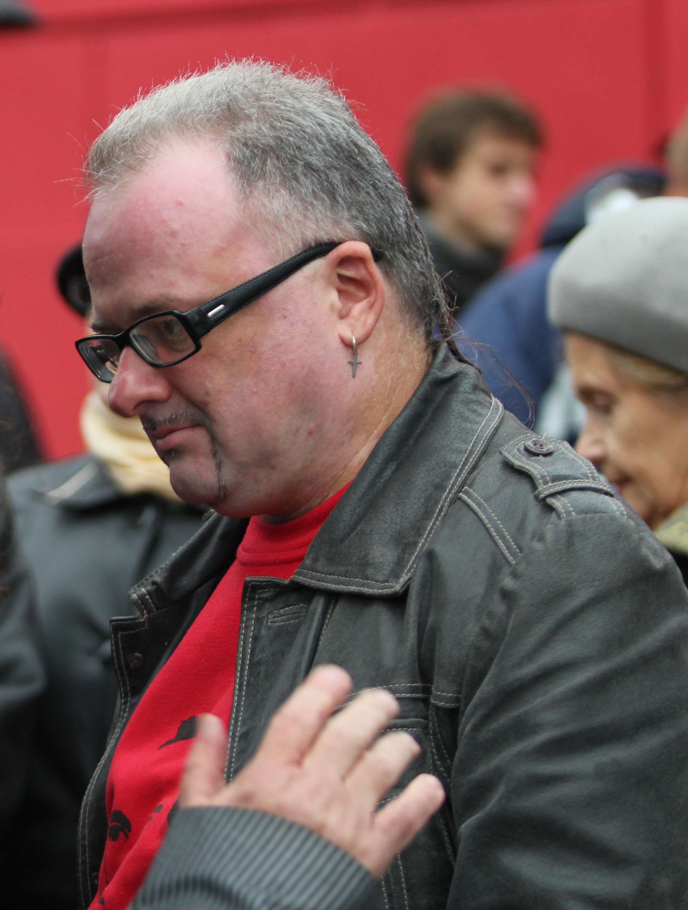 Roman Chayka, Ukrainian journalist and musician